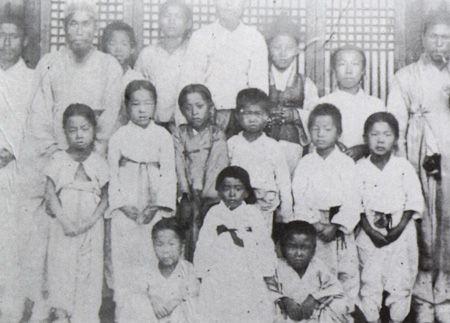 Kim Kyusik, Underwood school, 1888